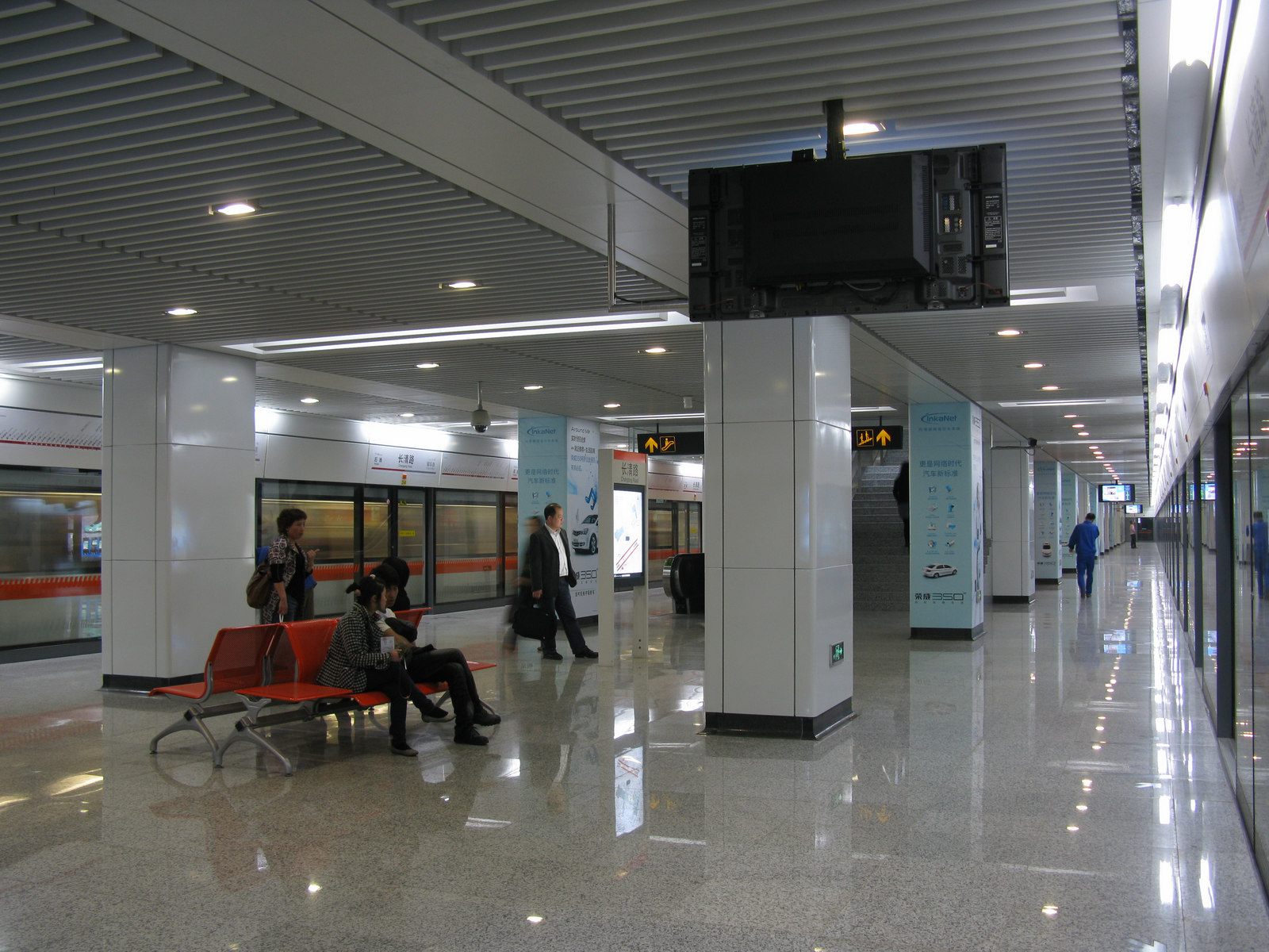 Line 7 Platform of Changqing Road Station, Shanghai Metro